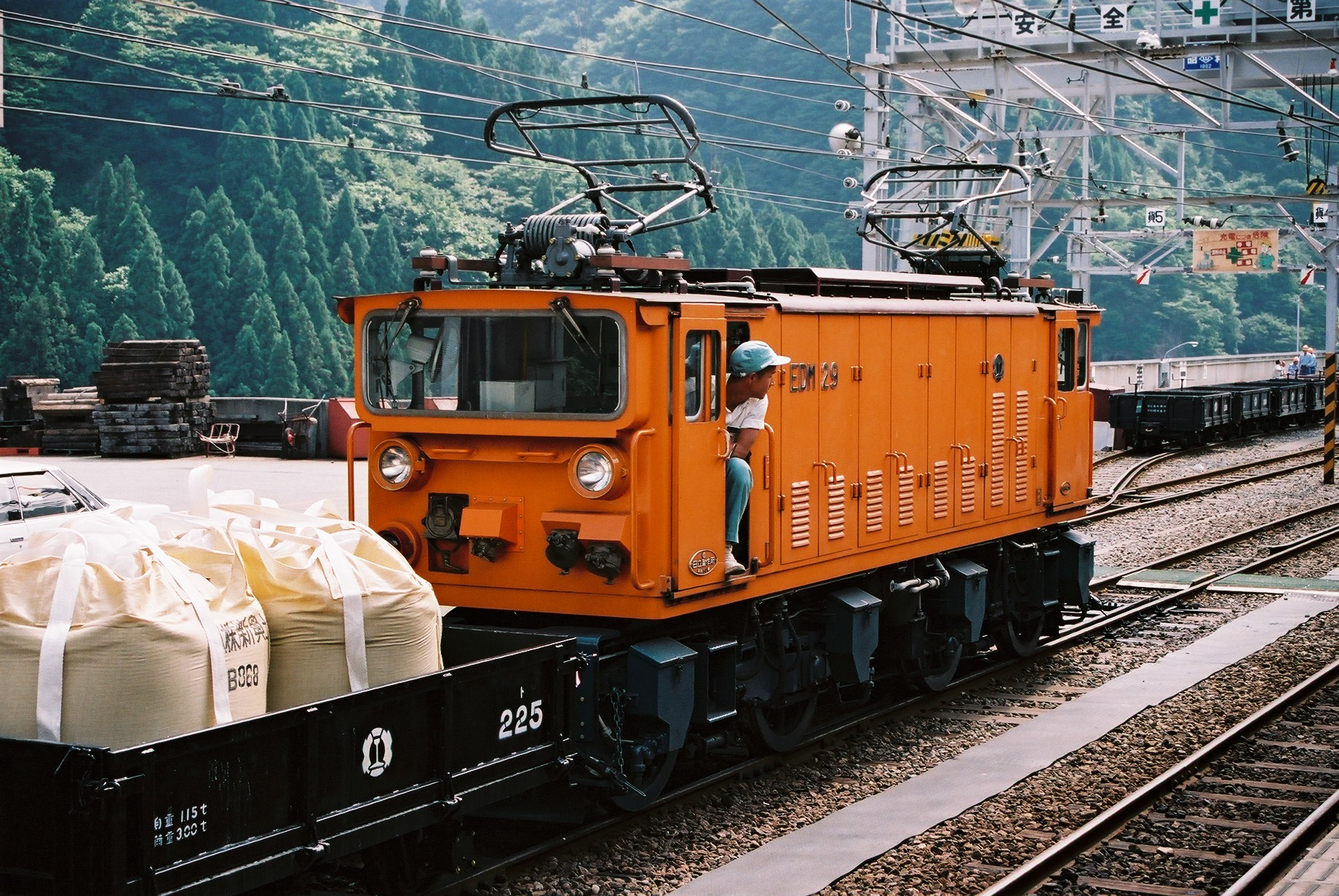 Kurobe Gorge Railway, Toyama, Japan